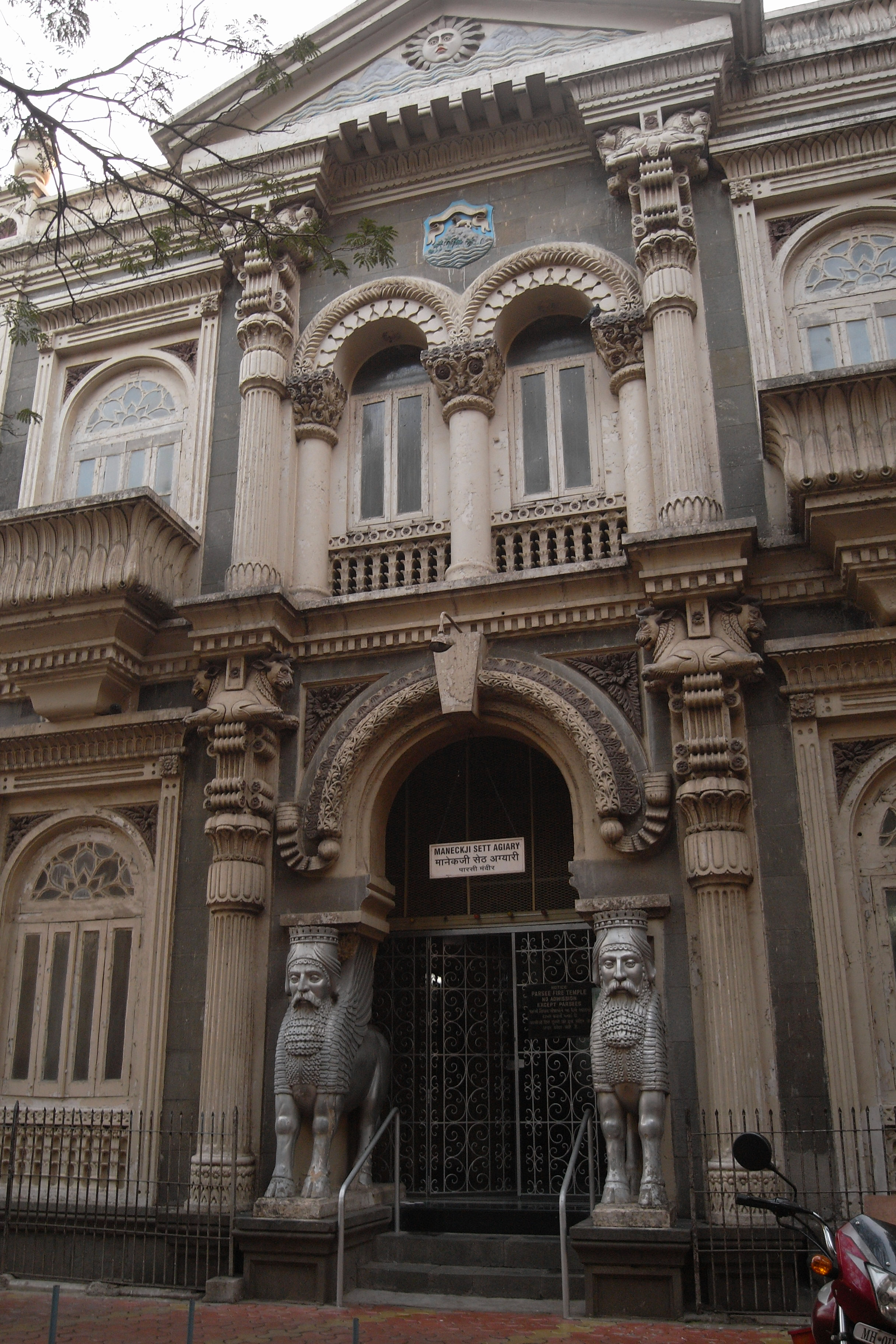 Exif_JPEG_PICTURE I'm very intrigued by parsi fire temples. entry is prohibited to all non-parsis. mumbai maharashtra, india